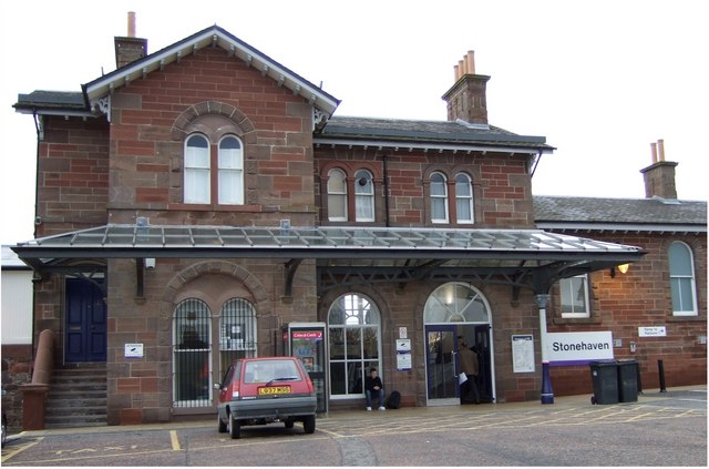 Stonehaven railway station Entrance and ticket office.